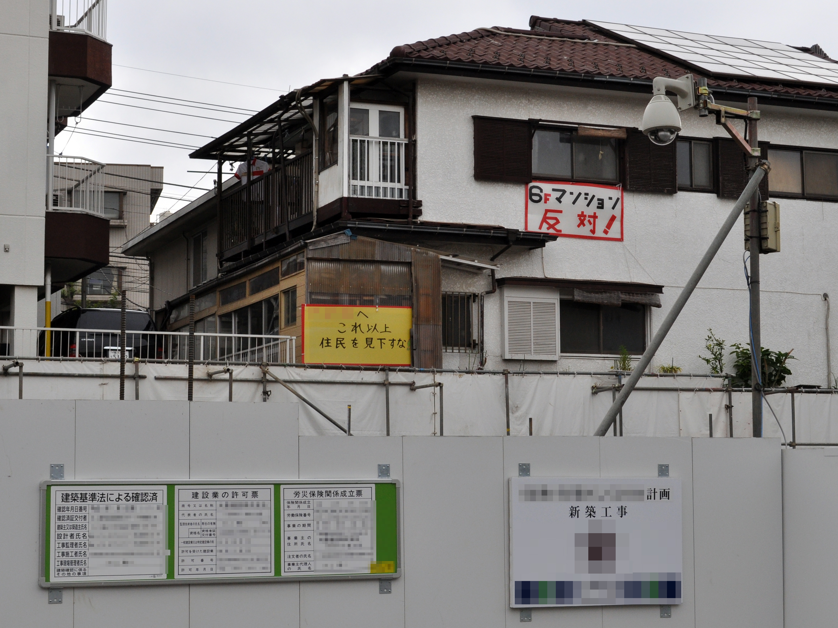 Protest against six-story condominium construction in Japan.